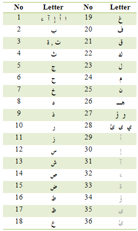 Table showing all 36 printable Arabic letters lumped together in classes